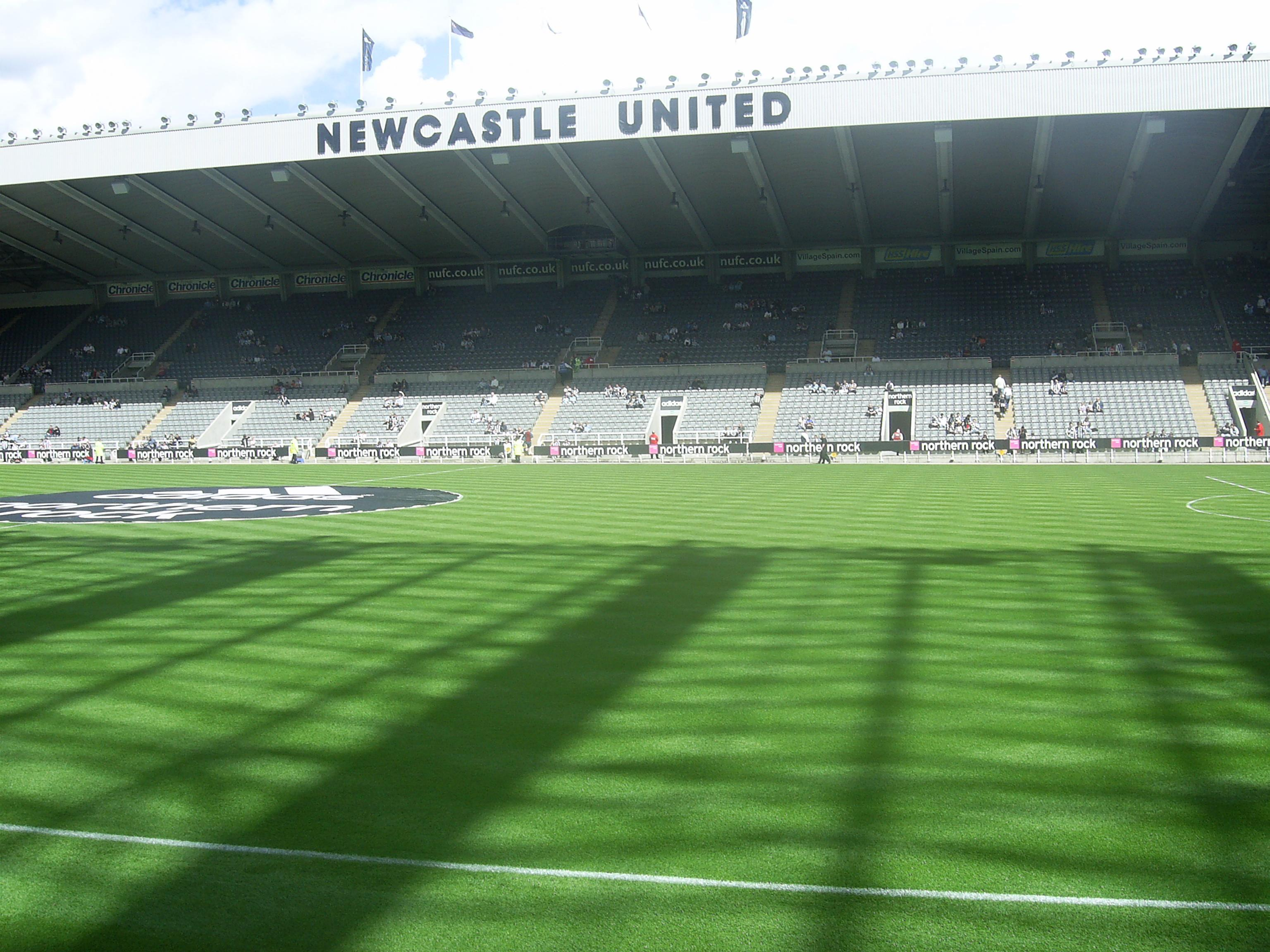 St. James' Park, East Stand